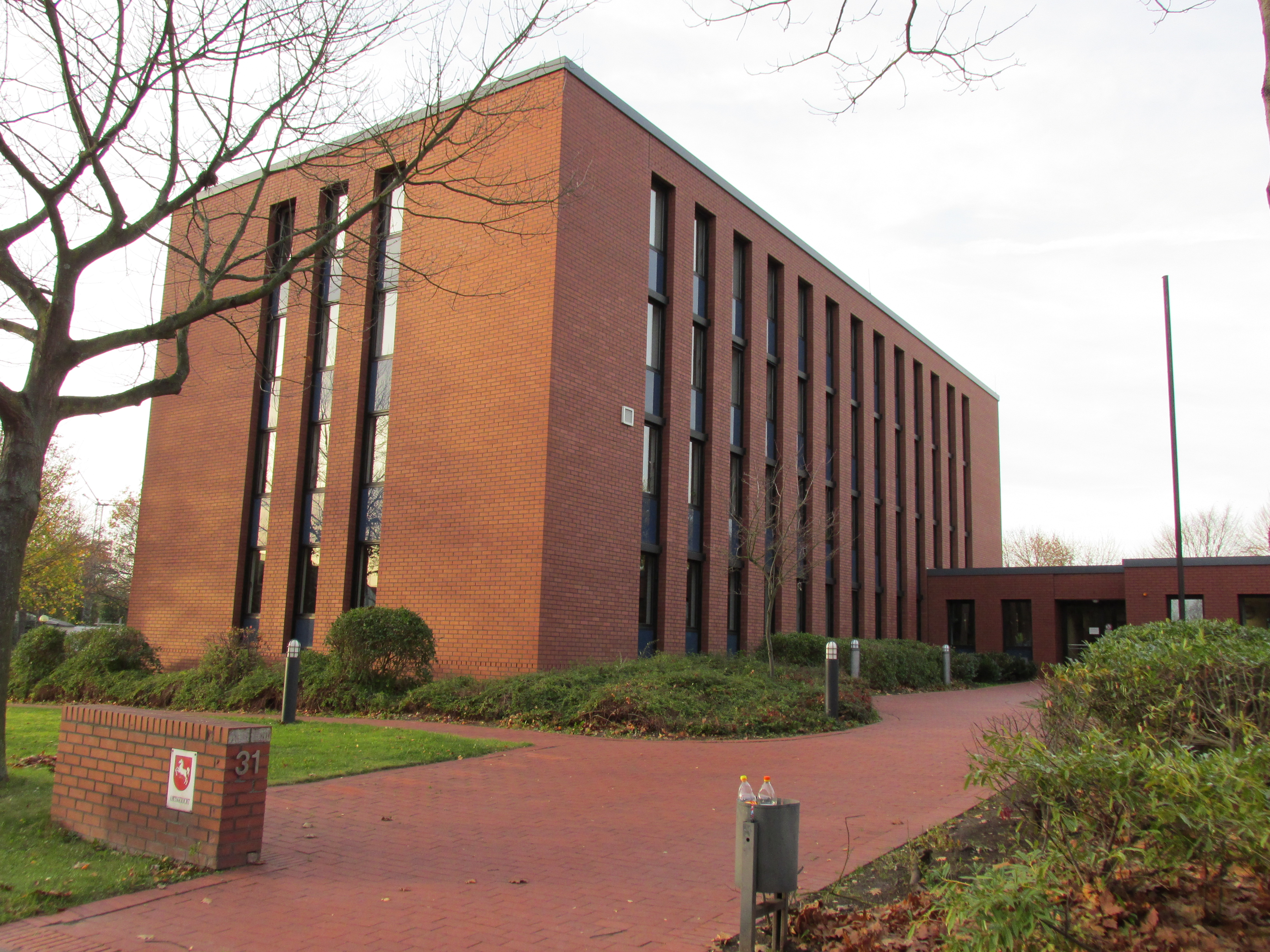 Courthouse Amtsgericht Northeim, Northeim, Germany